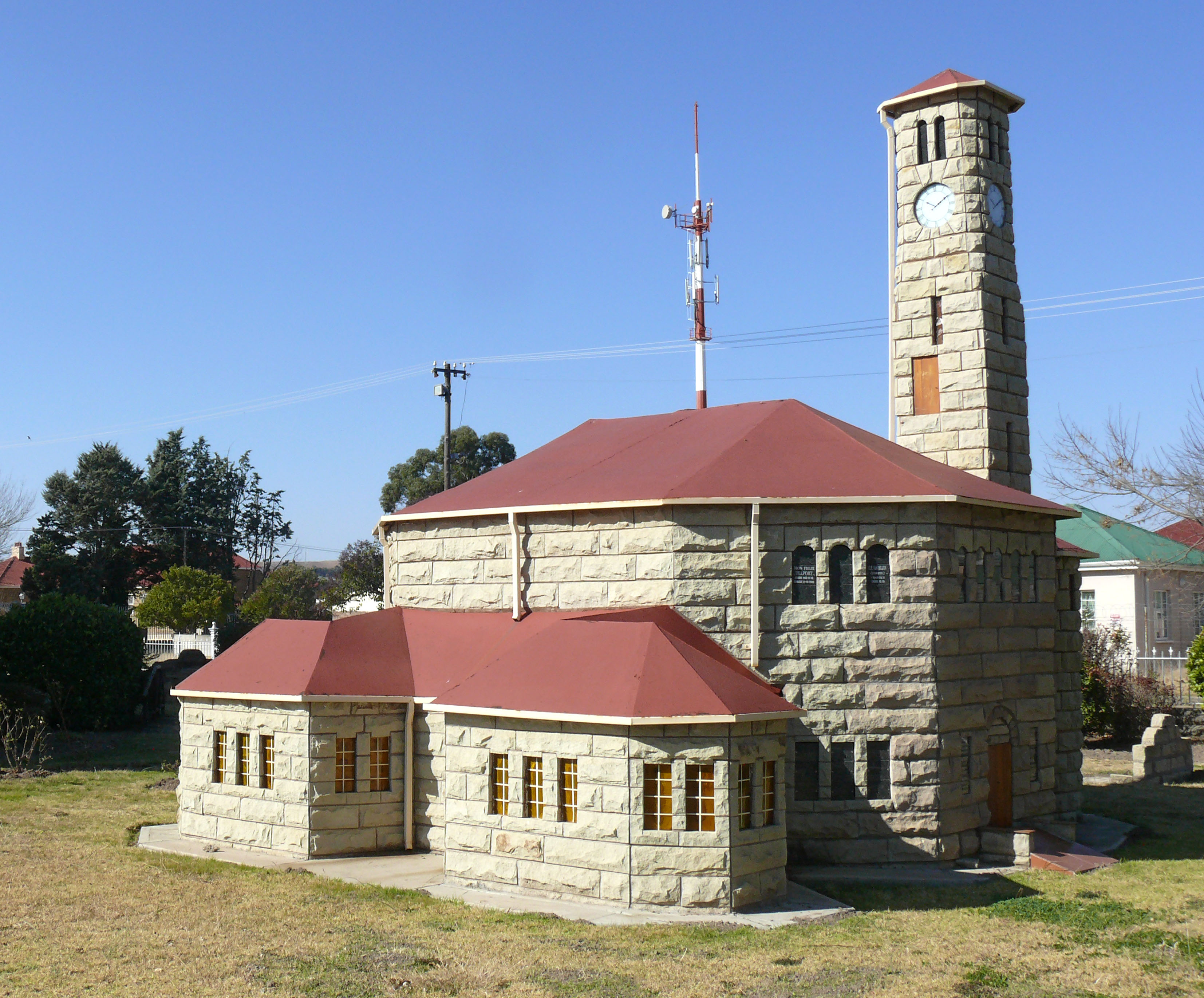 Replica of Dutch Reformed Church in Elliot, Eastern Cape, used as a wall of remembrance to house ashes of deceased members of the congregation